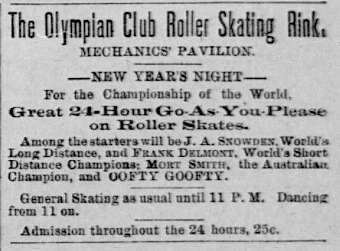 Newspaper advertisement: Skating contest with starter Oofty Goofty